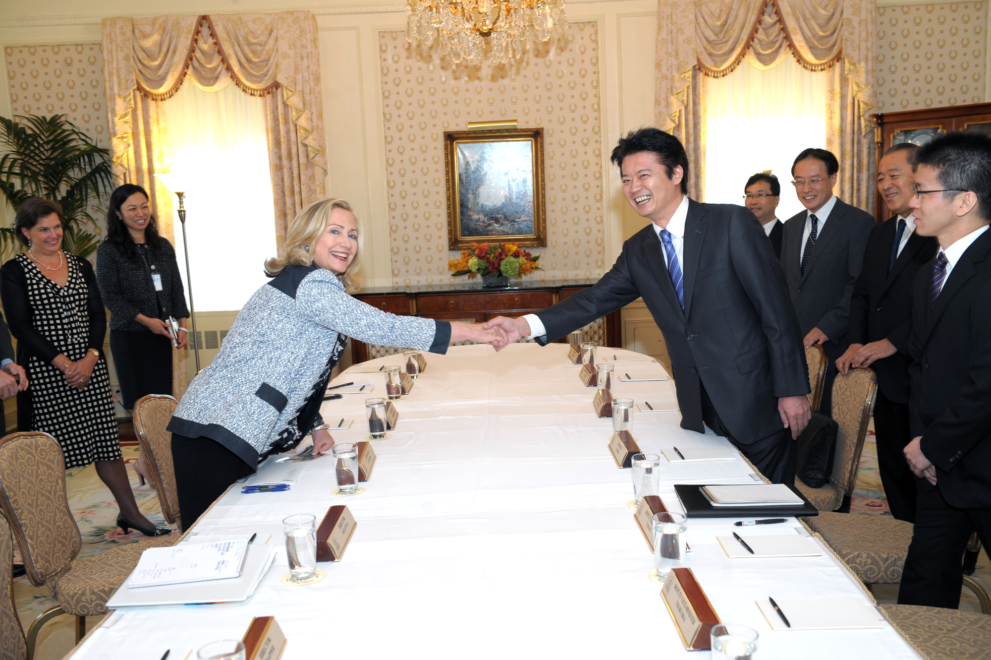 Kōichirō Gemba, Minister for Foreign Affairs, shaked hands with Hillary Rodham Clinton, Secretary of State, in New York City, New York State on September 19, 2011.